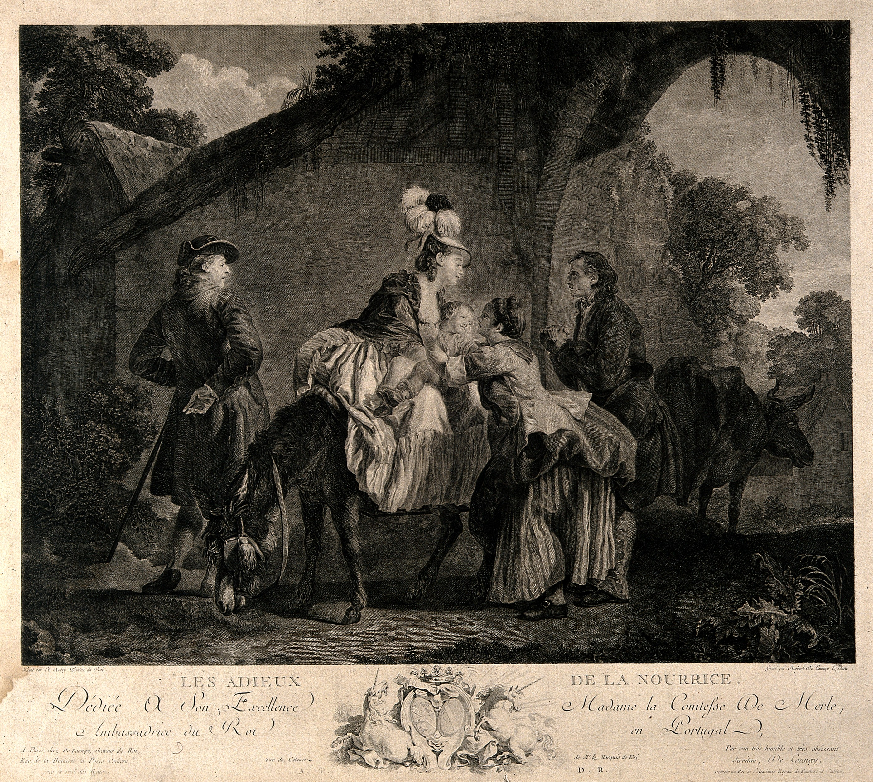 An infant who has been living with a wet-nurse being taken away from its foster-parents by its natural mother. Etching by R. De Launay (Delaunay) after E. Aubry. Iconographic Collections Keywords: Étienne Aubry; Robert De Launay